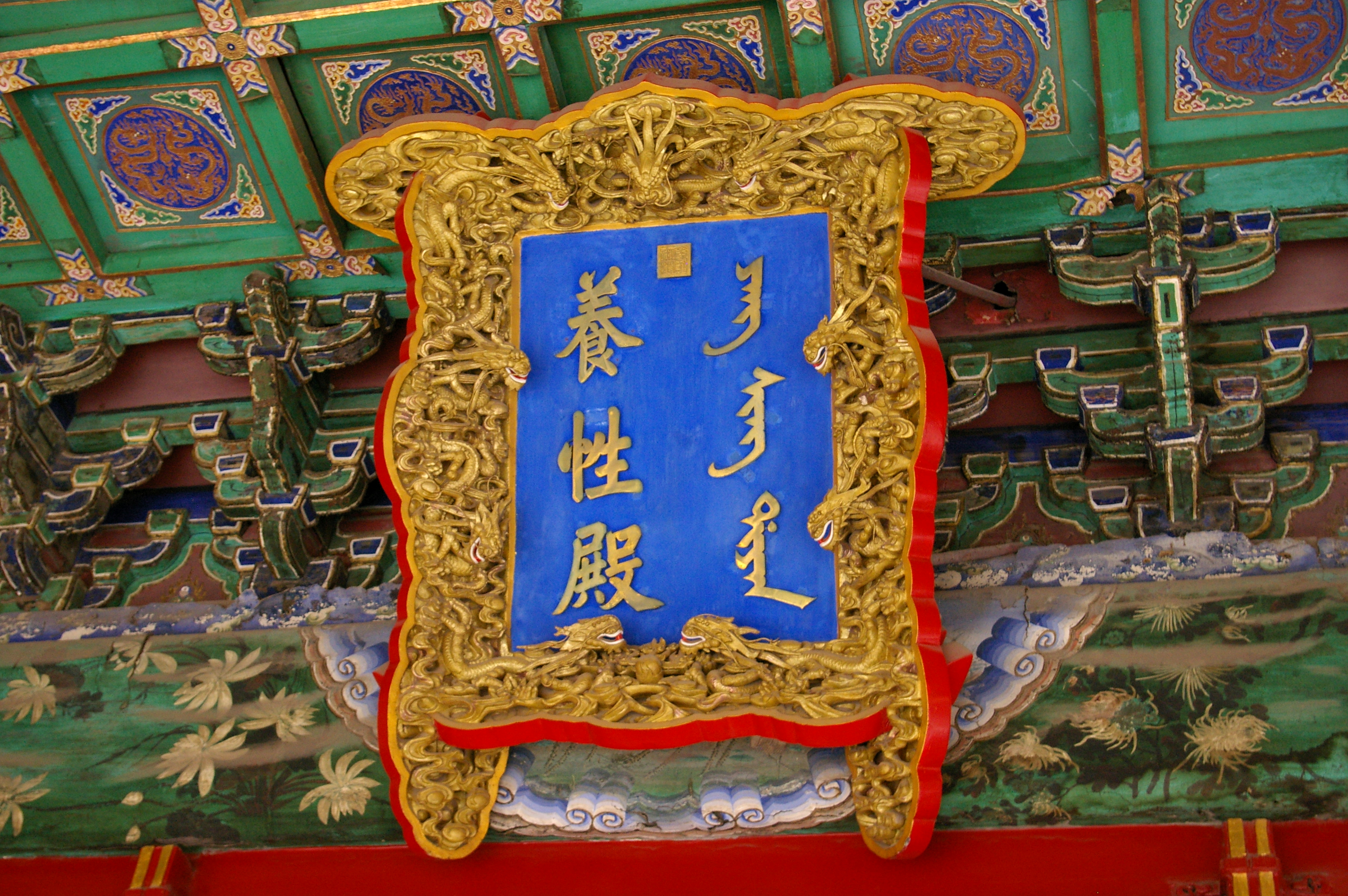 Forbidden City in Beijing